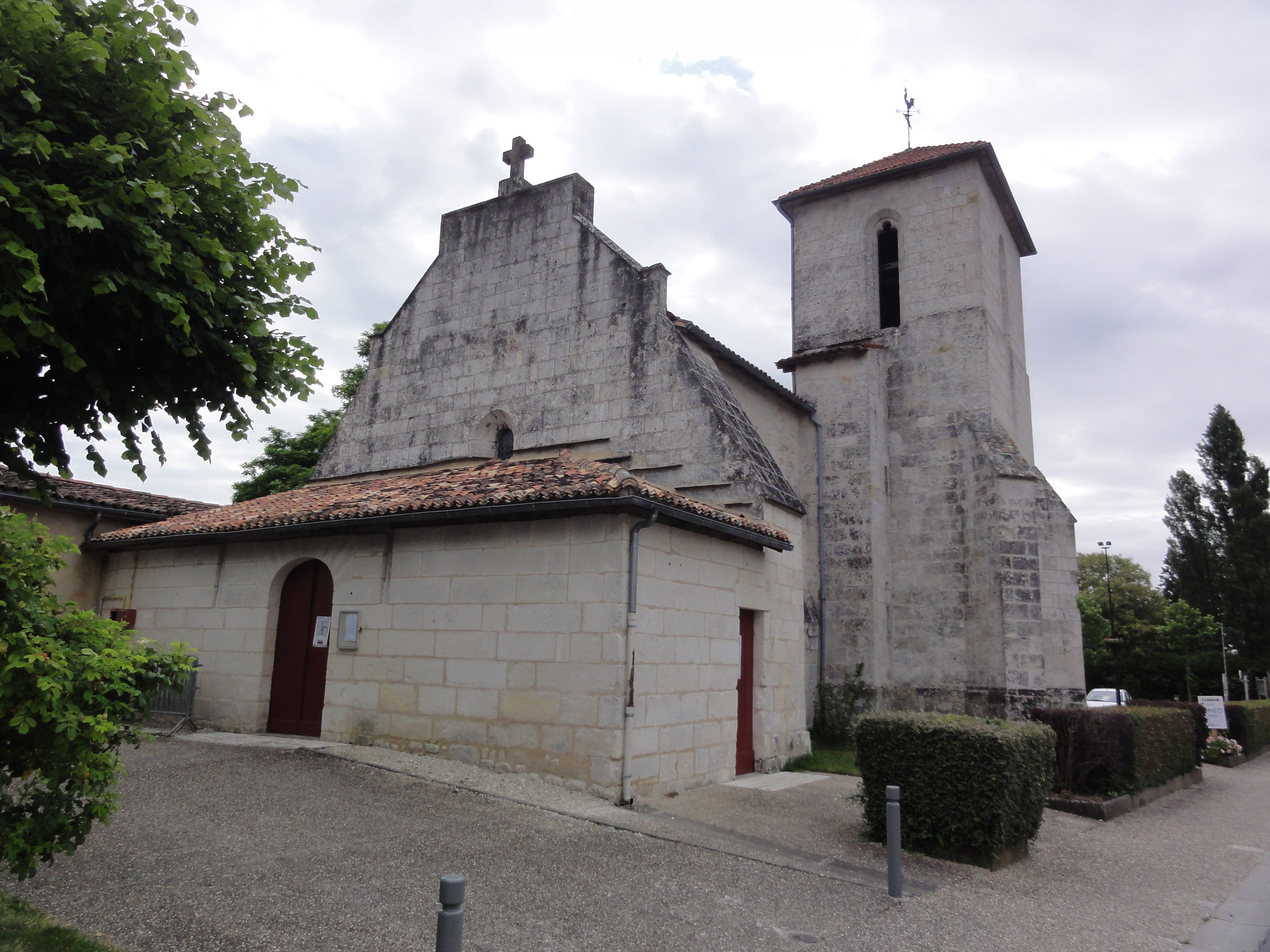 Les Gonds (Charente-Maritime) église